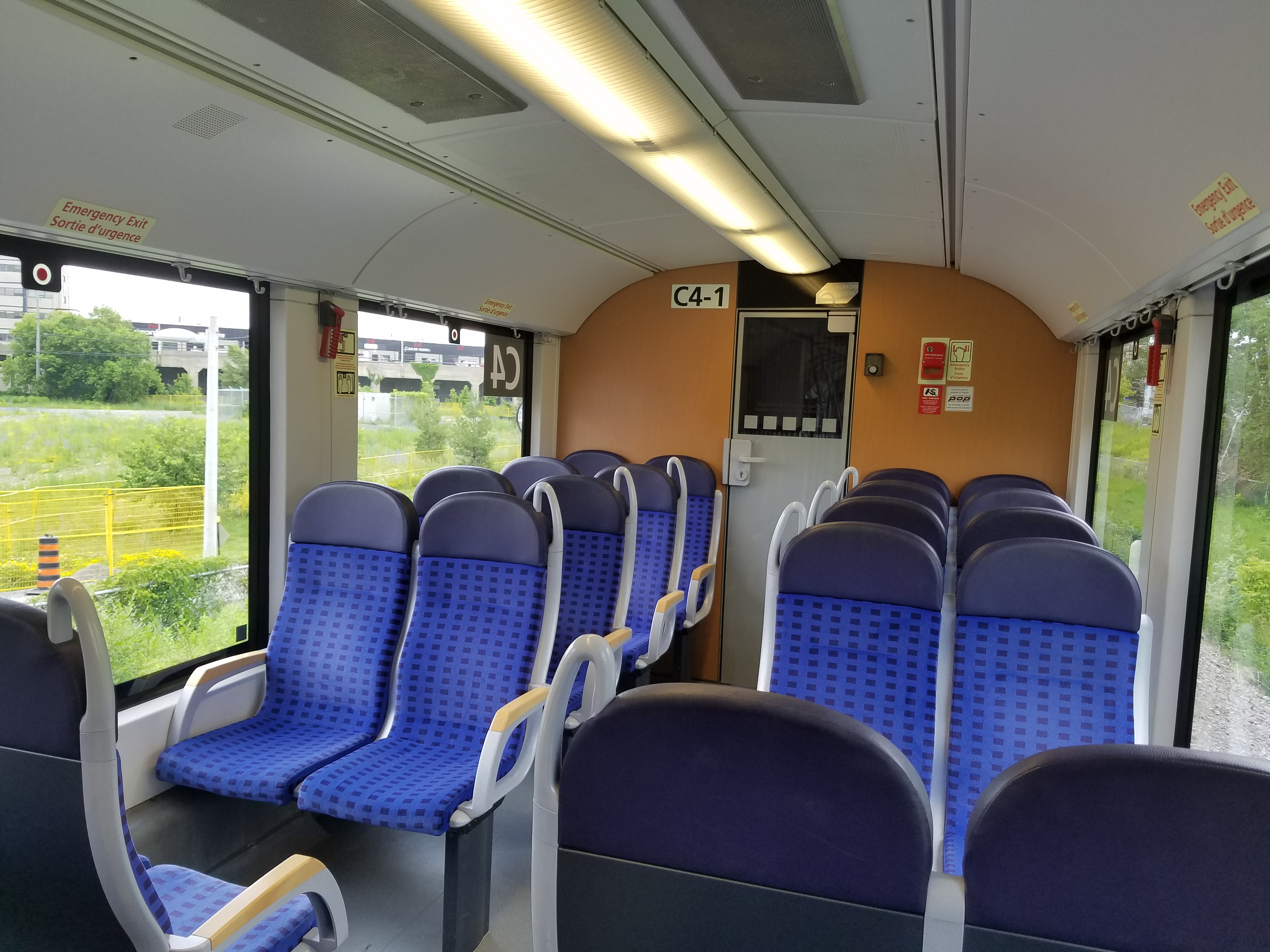 Interior of the diesel-powered Alstom stock used on the Trillium Line in Ottawa, Ontario, Canada.